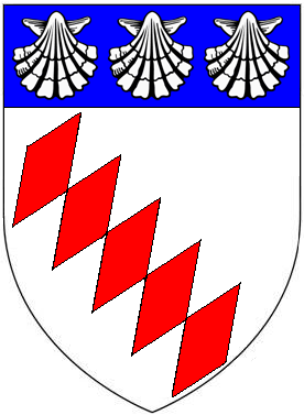 Arms of Gammage of Coity Castle, Glamorgan: Argent, five fusils in bend gules on a a chief azure three escallops of the first. These were the arms of the heiress Barbara Gammage borne as an escutcheon of pretence by her husband Robert Sidney, 1st Earl of Leicester, as is visible on the imprints of 55 books donated by him to the Bodleian Library. The earlier arms of Gammage found on various rolls of arms omitted the escallops and place the bend fusilly over all